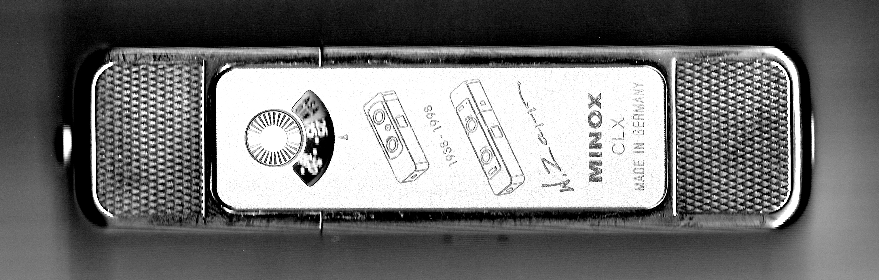 Special edition Minox CLX, with Walter Zapp signature